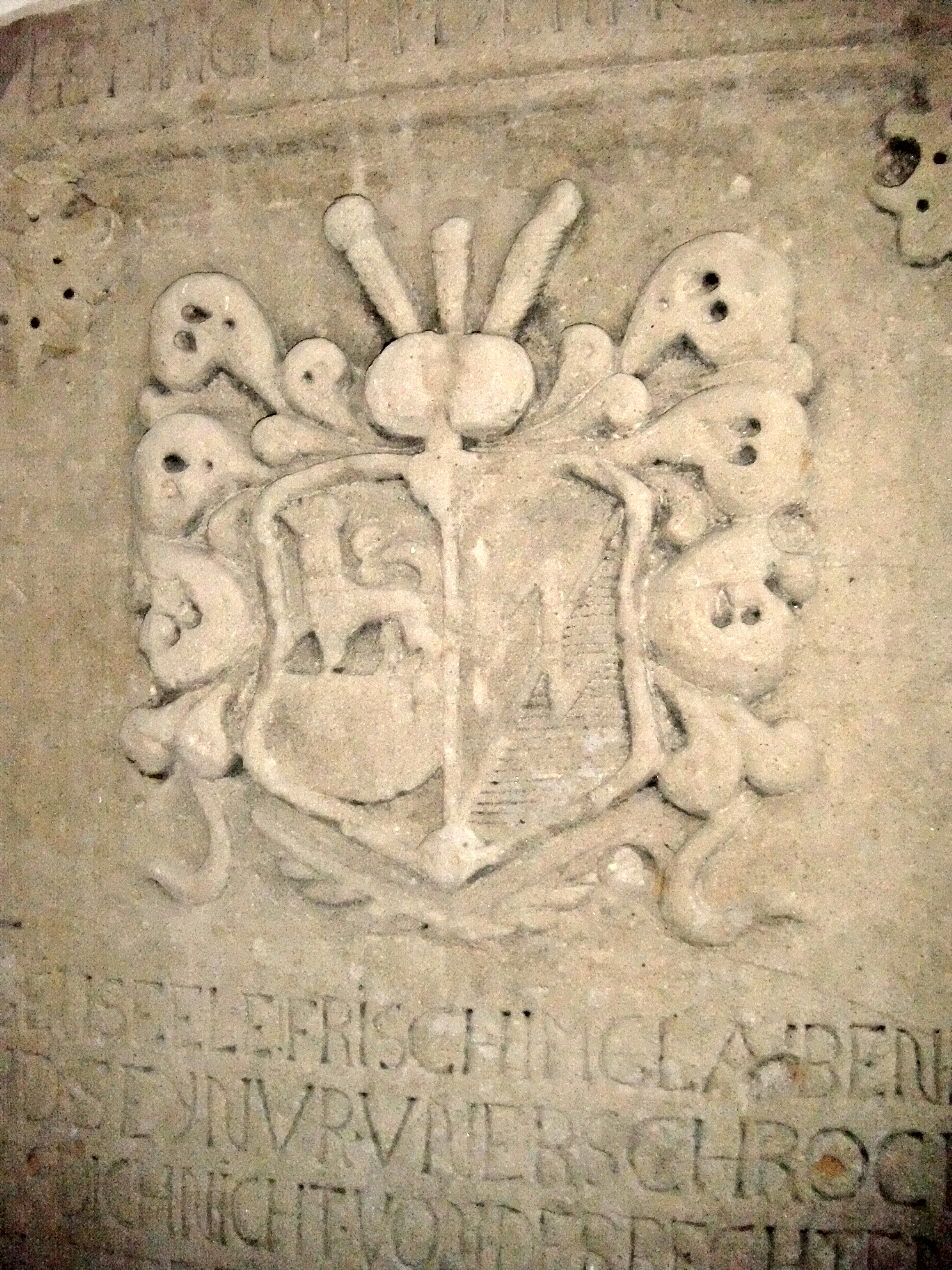 Morschheim Prot. Kirche Epitaph Claudius Mauritius von Gagern, Wappen